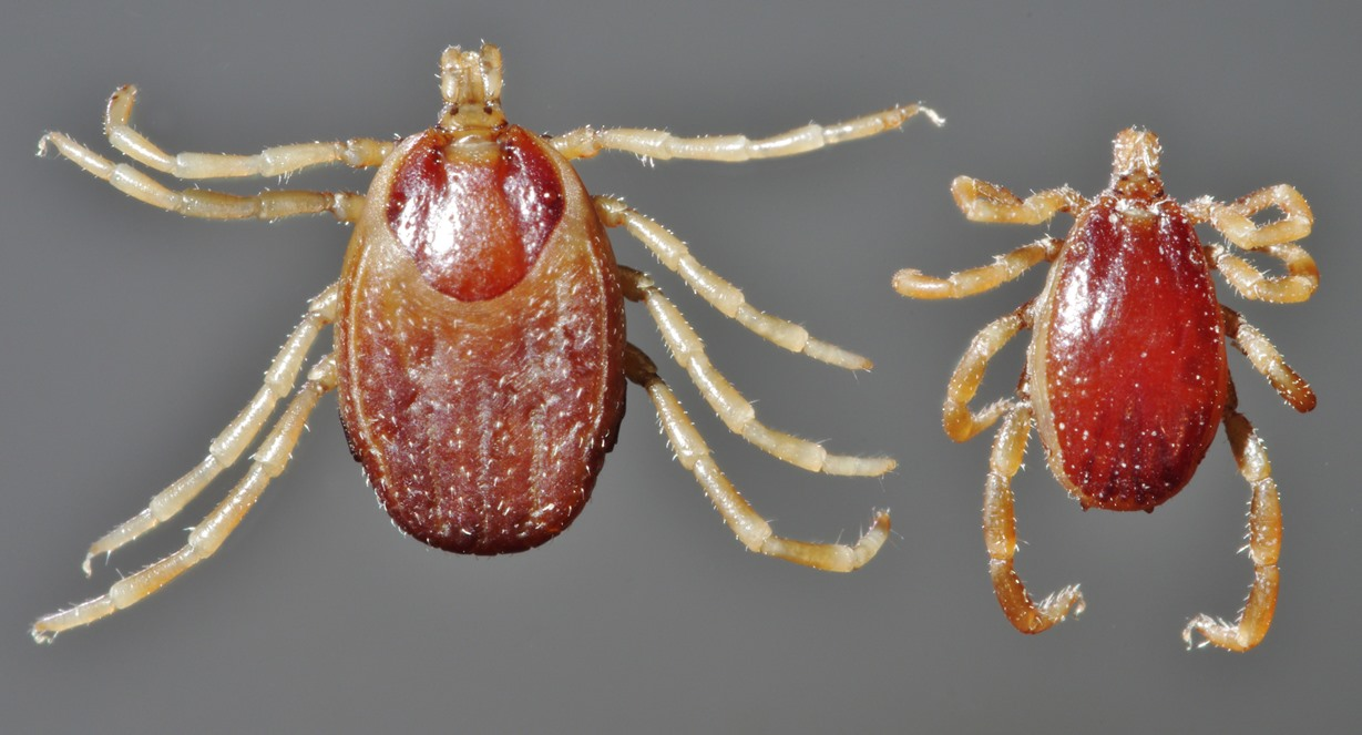 Hyalomma anatolicum ixodid ticks, female and male, dorsal.